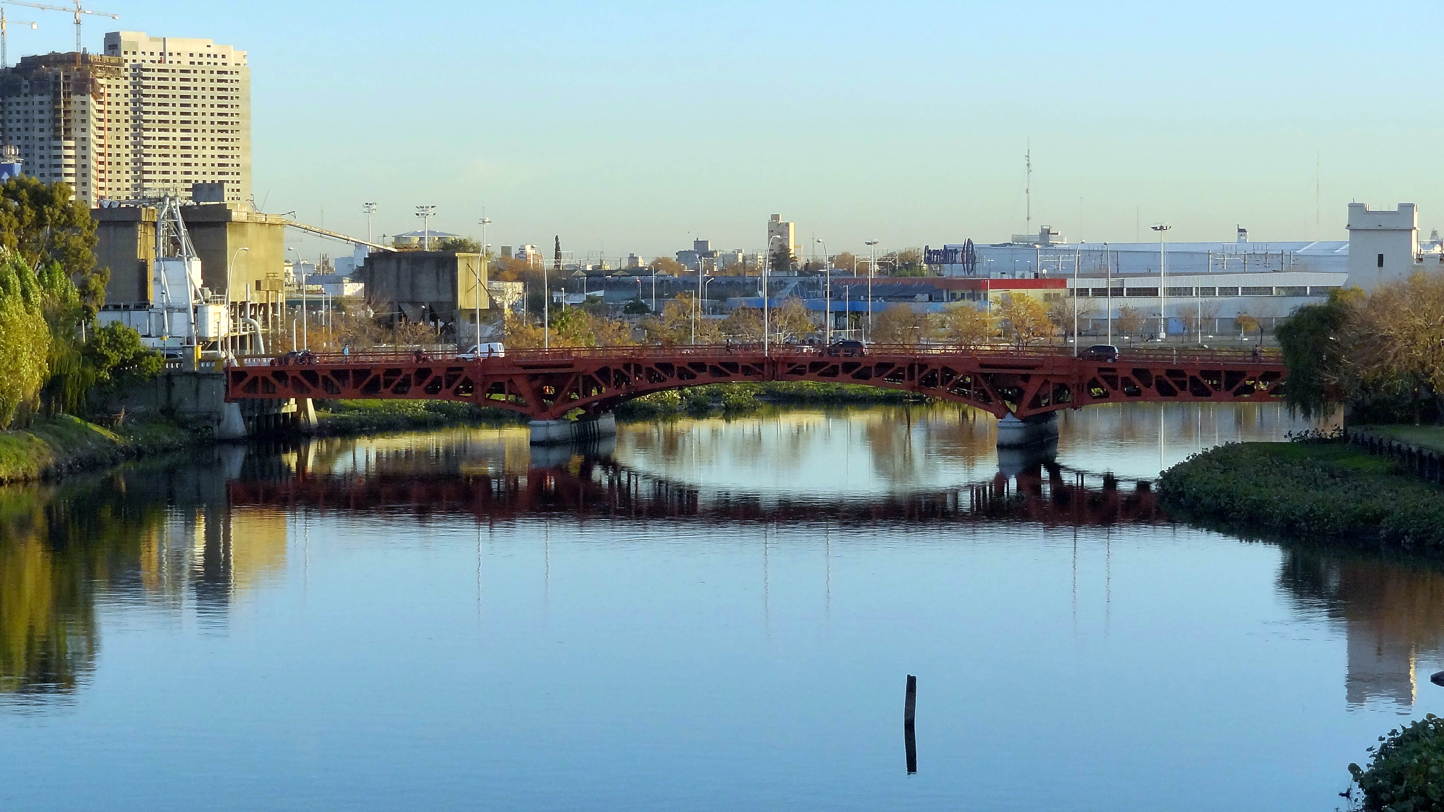 Pueyrredon Bridge